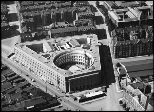 Københavns Politigård (Copenhagen Police Headquarters) under Construction, c. 1922